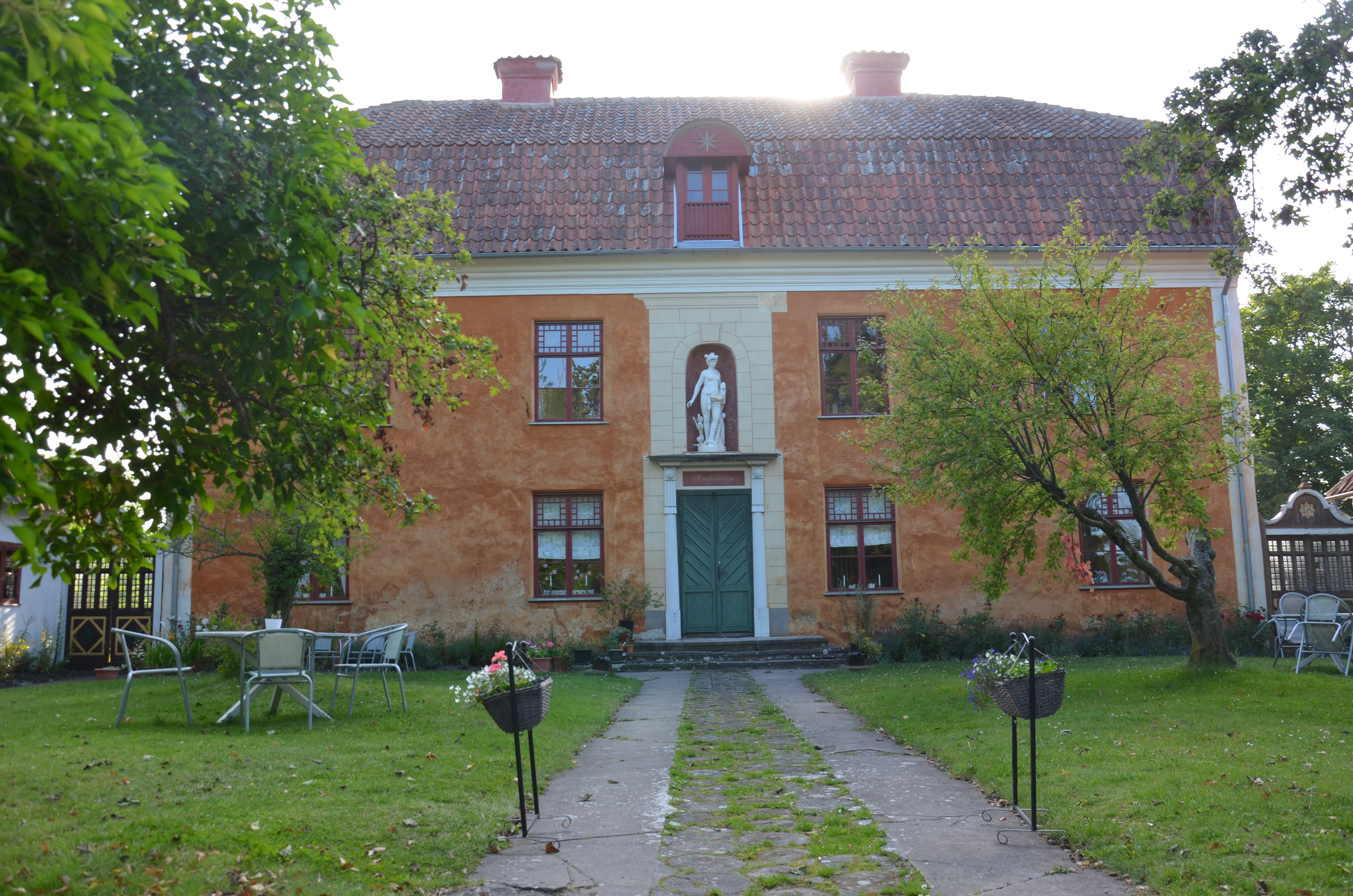 Katthamra gård, Katthammarsvik, Gotland